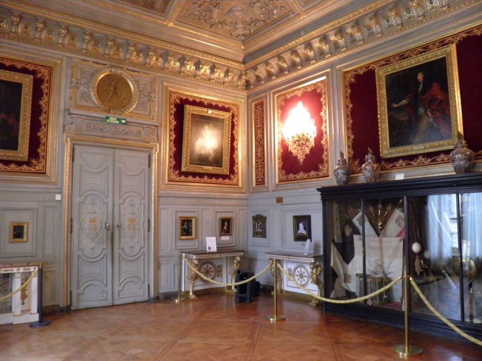 Guardroom, grands appartements, château de Chantilly.